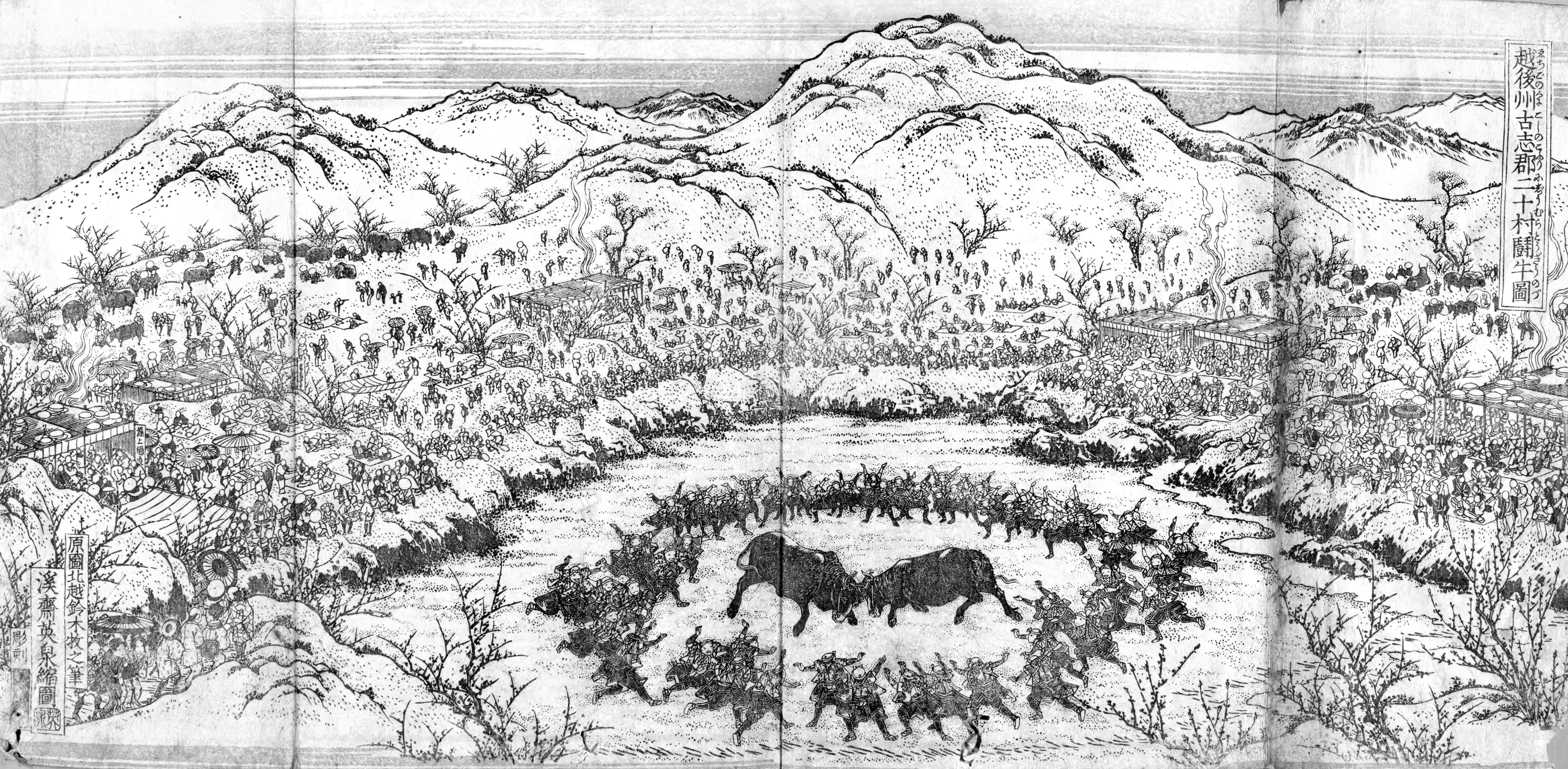 "Echigo-no-kuni Koshi-no-kōri Nijū-mura Tōgyū no zu" (Figure of bull wrestling in Nijū-mura village, Koshi District, Echigo Province) in Japanese book "Nansō Satomi Hakkenden". (Gray-scaled)